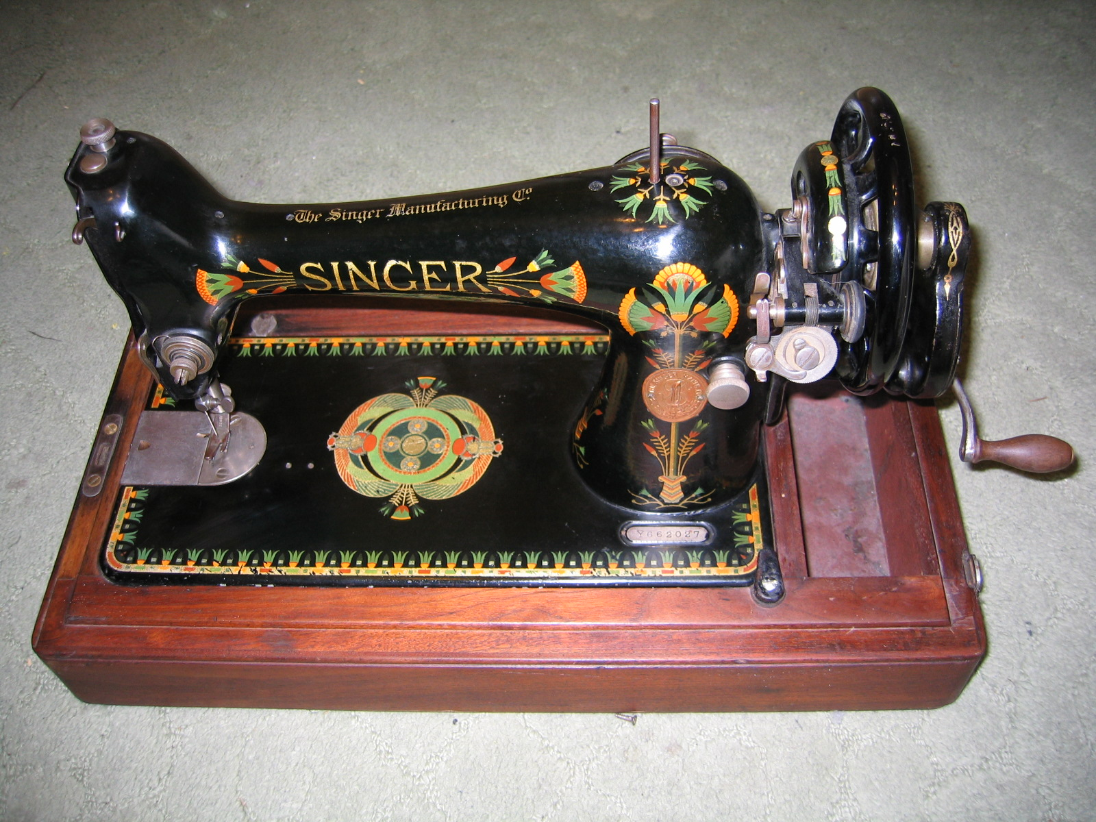 A singer model 66 made in 1922. This has the "Lotus" decoration. (From the Gravesham Collection)